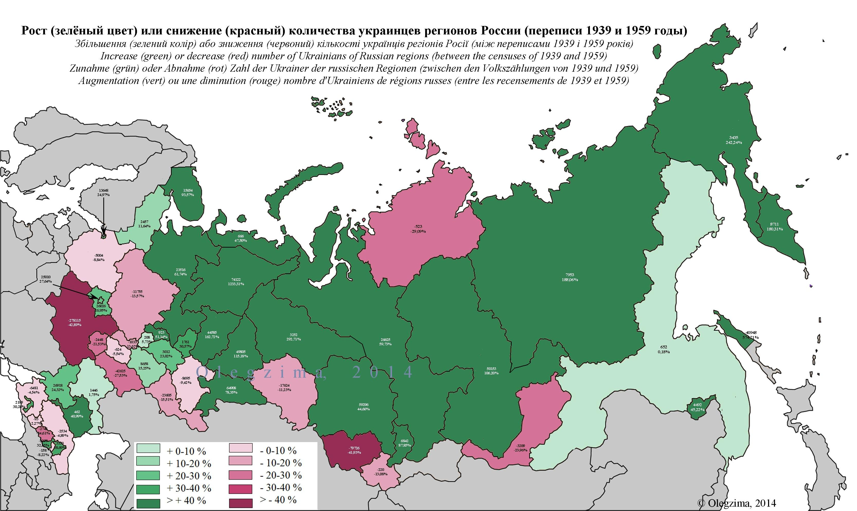 Increase (green) or decrease (red) number of Ukrainians of Russian regions (between the censuses of 1939 and 1959)